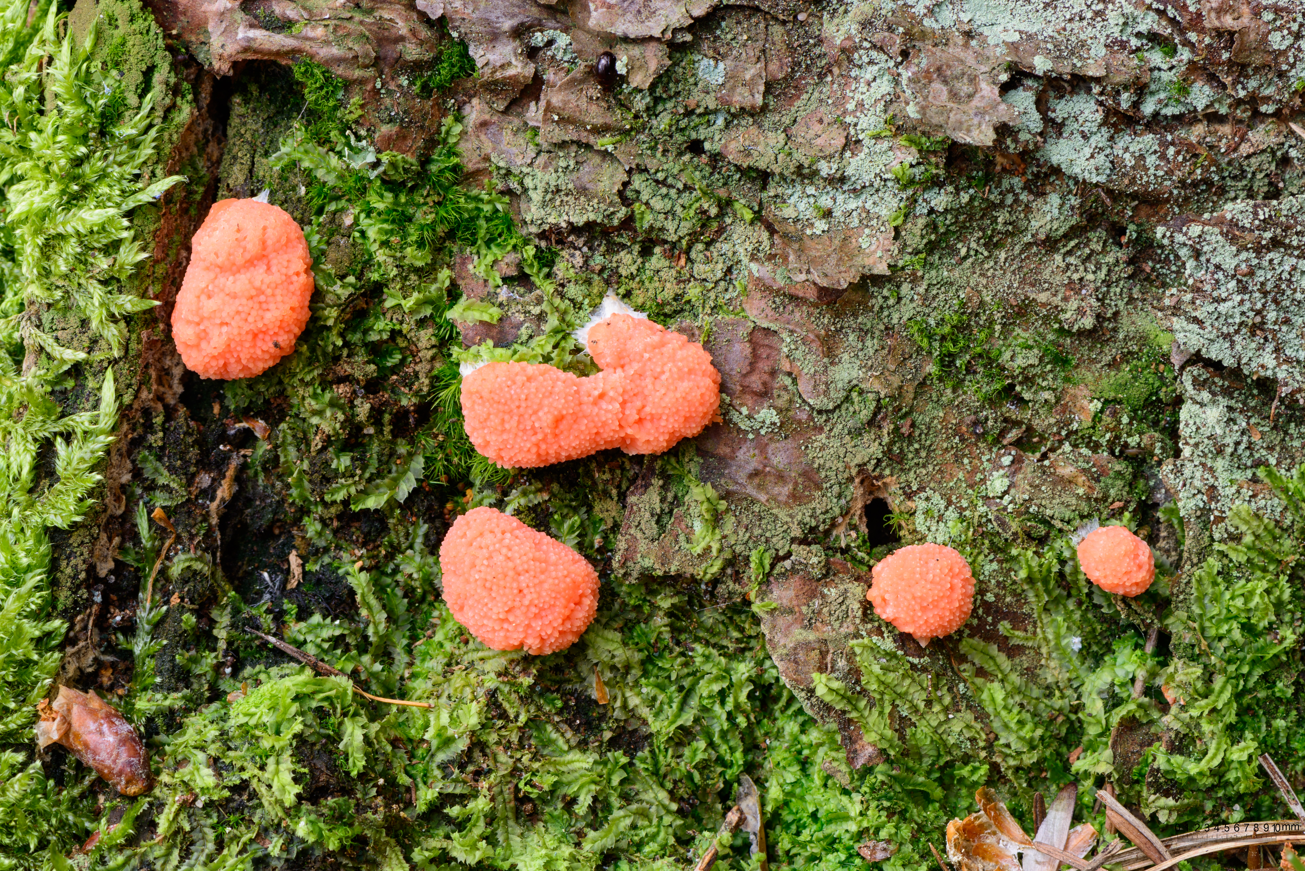 Slime mold Tubifera ferruginosa found in the forest near Mörfelden-Walldorf, Hesse, Germany.